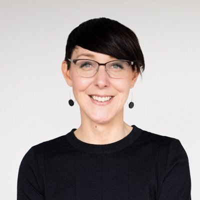 Anna Bergström, Chairperson of the Swedish Humanists